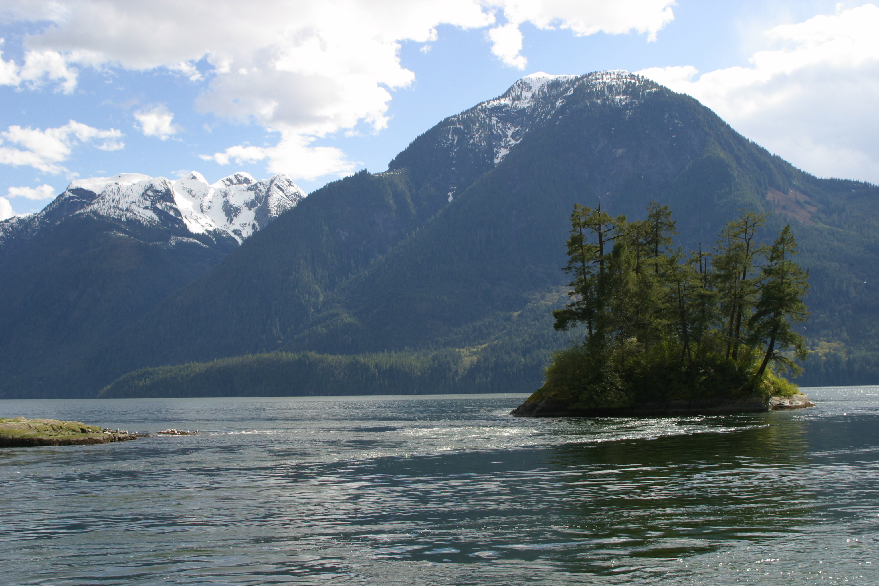 Mt. Arthur with Mt. Fredrick William off to the left and Forbiden Island in the forground, Jervis Inlet and Princess Louisa Inlet, BC/Canada